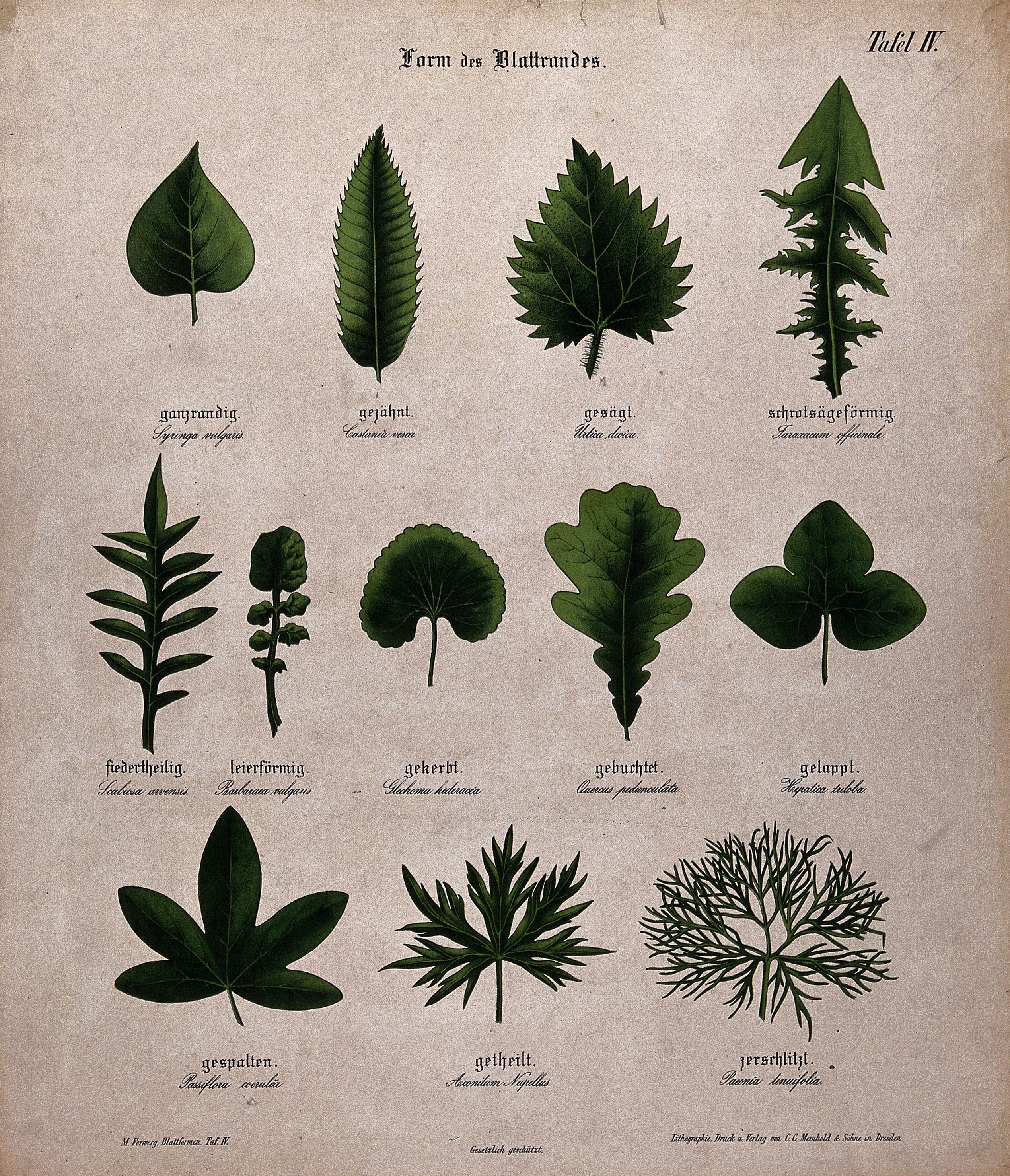 Twelve plant leaves with different types of margin. Chromolithograph, c. 1850. Iconographic Collections